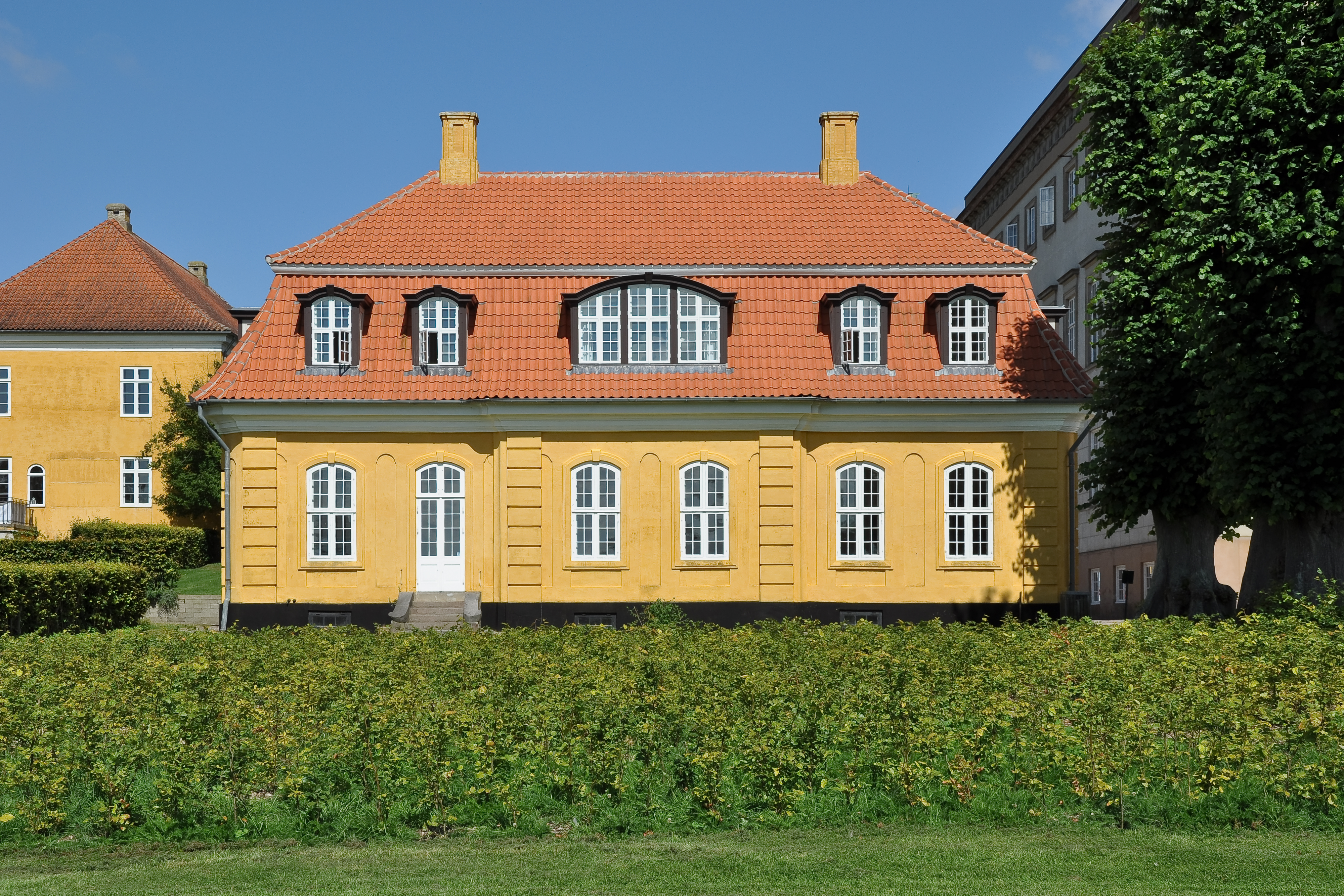 Molbech's House at Sorø Academy in Sorø, Denmark.